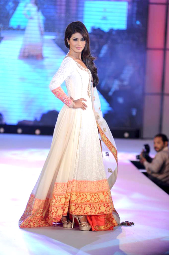 Priyanka Chopra walks for Manish Malhotra & Shaina NC's show for CPAA